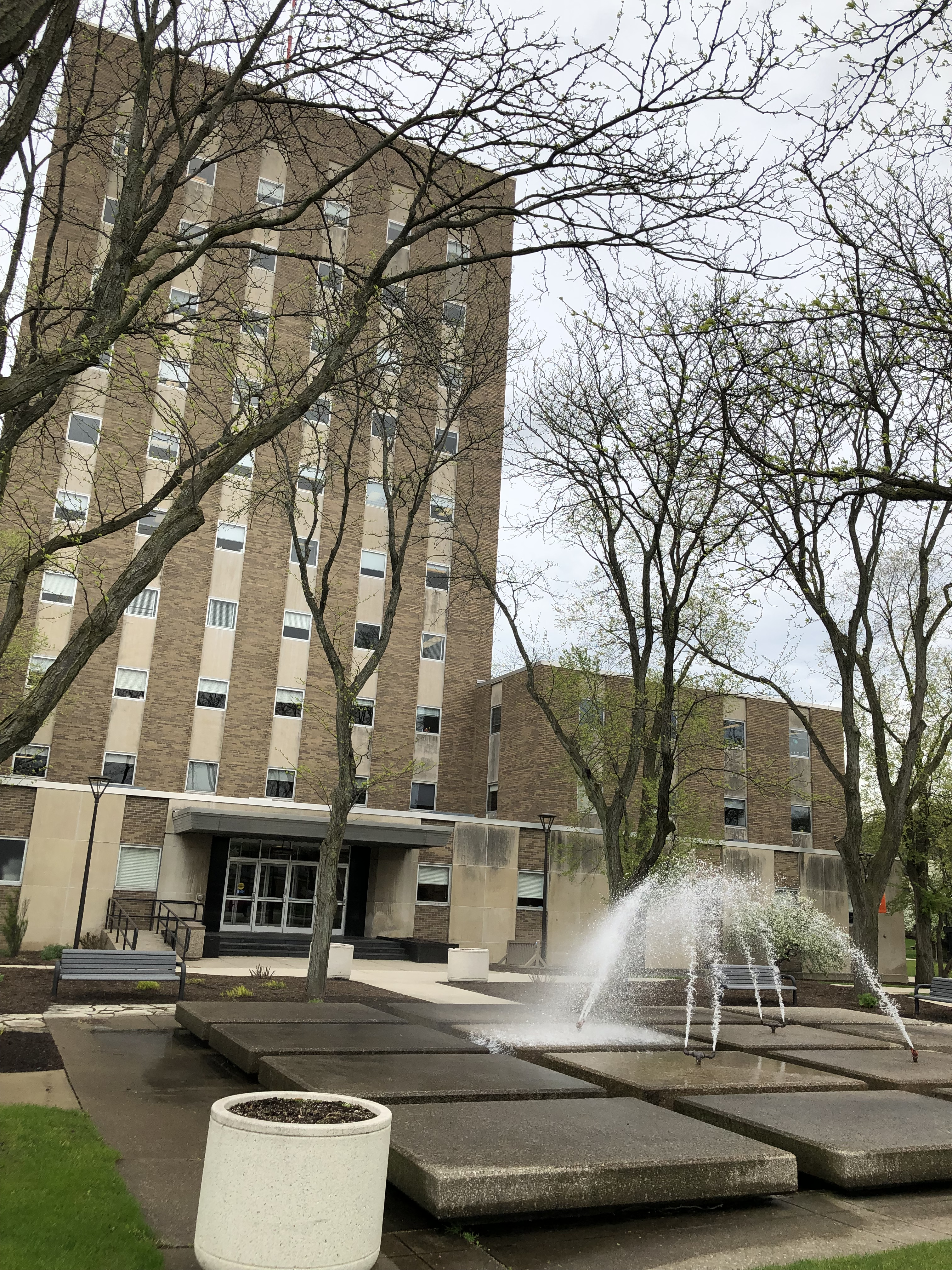 The fountain at the BGSU Admin Building